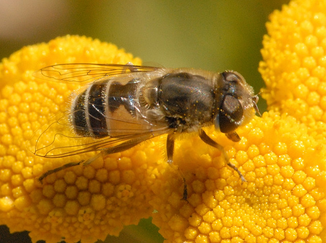 Eristalis abusiva from Commanster, Belgian High Ardennes .